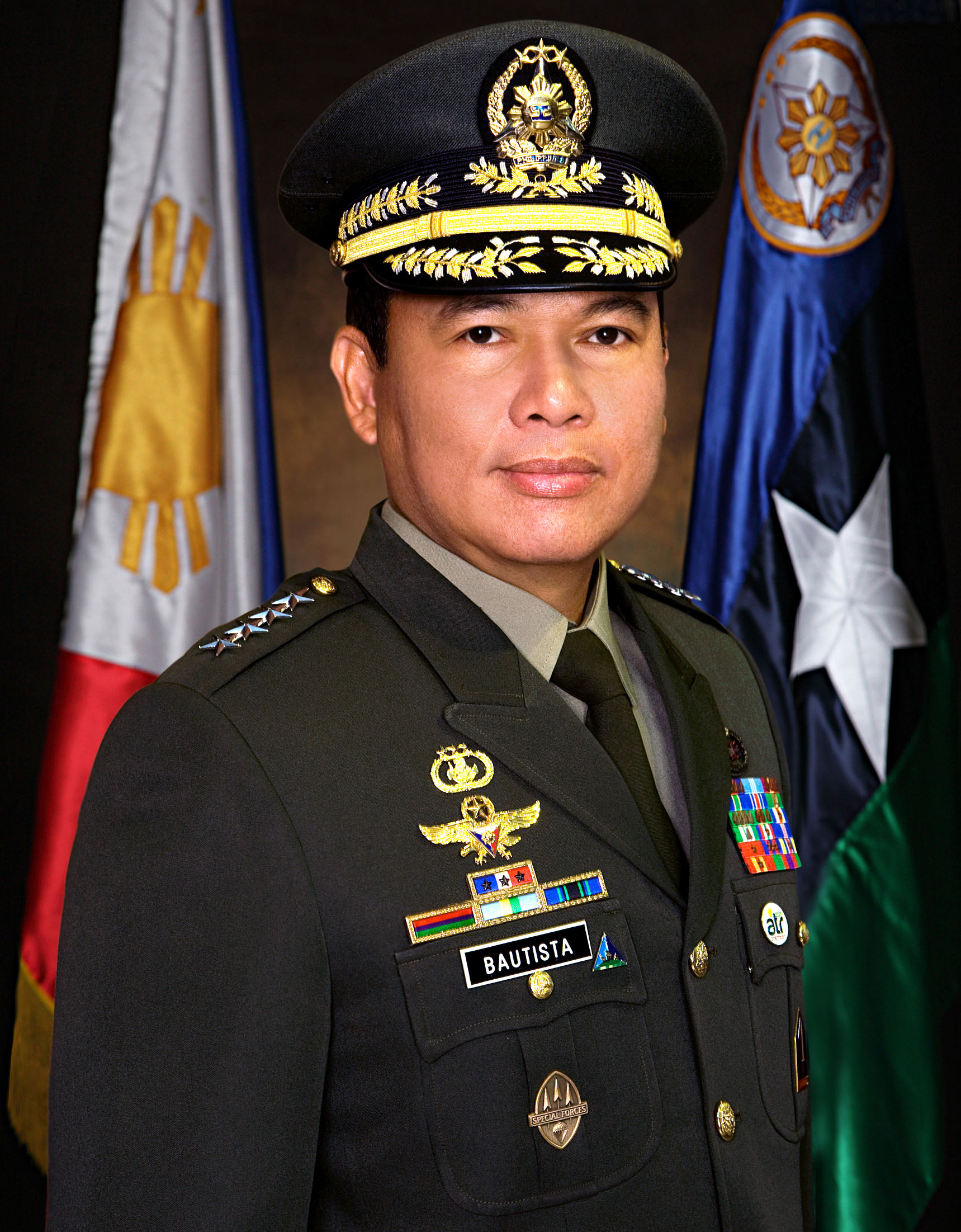 Portrait of Retired General Emmanuel T. Bautista, Armed Forces of the Philippines Chief of Staff